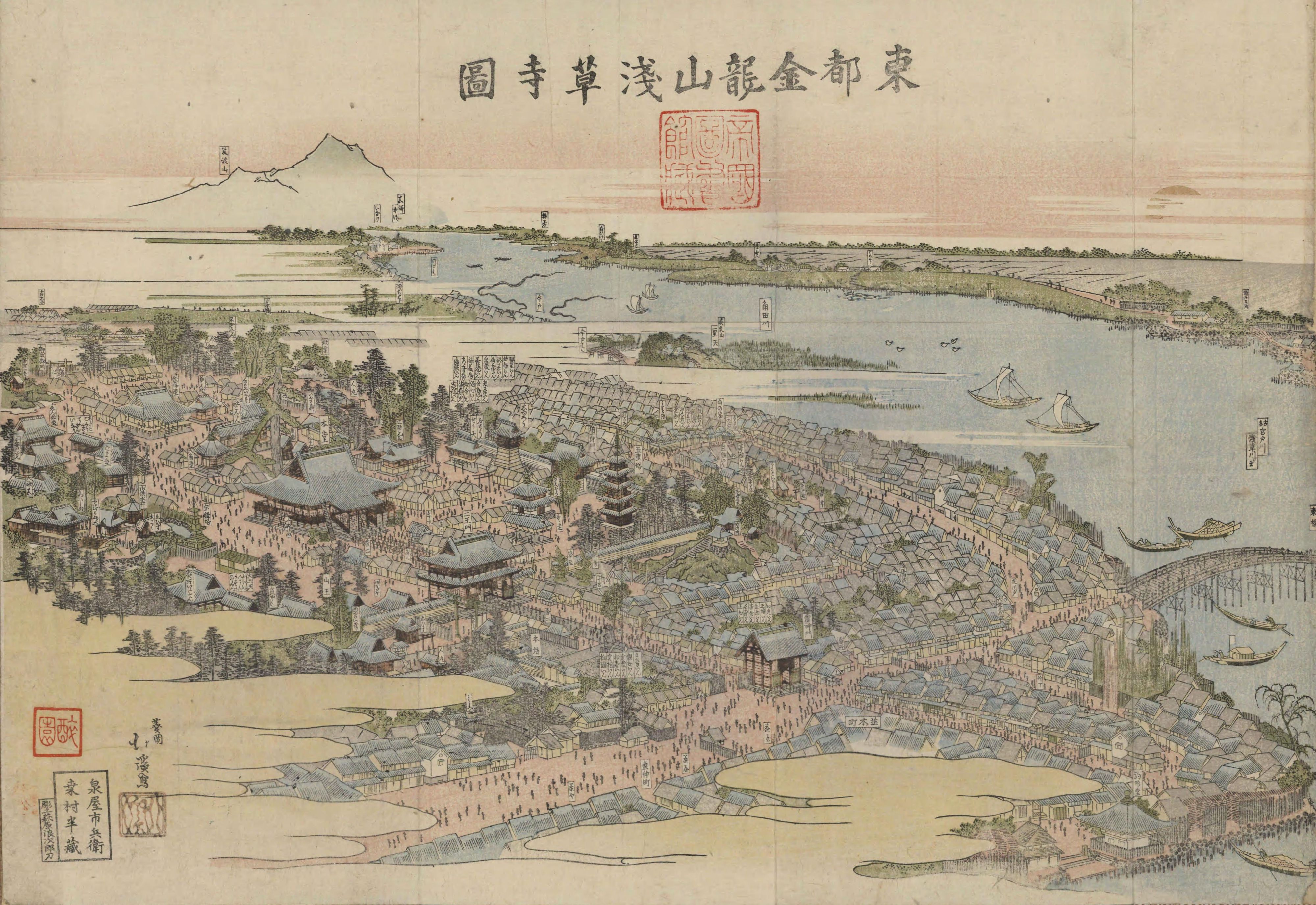 Tōto Kinryūzan Sensō-ji zu